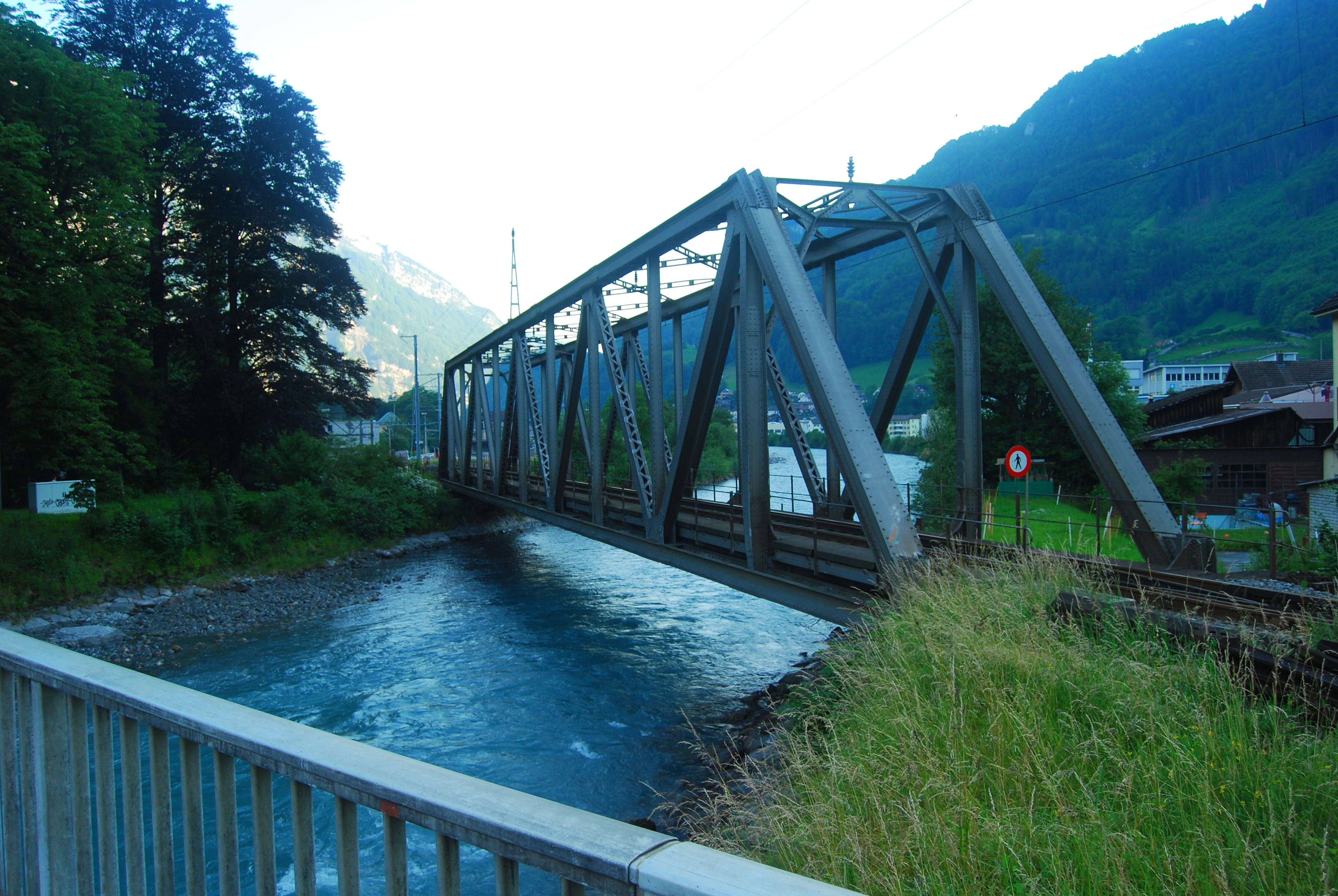 Railway bridge over Linth between Glarus and Ennenda, canton of Glarus, Switzerland